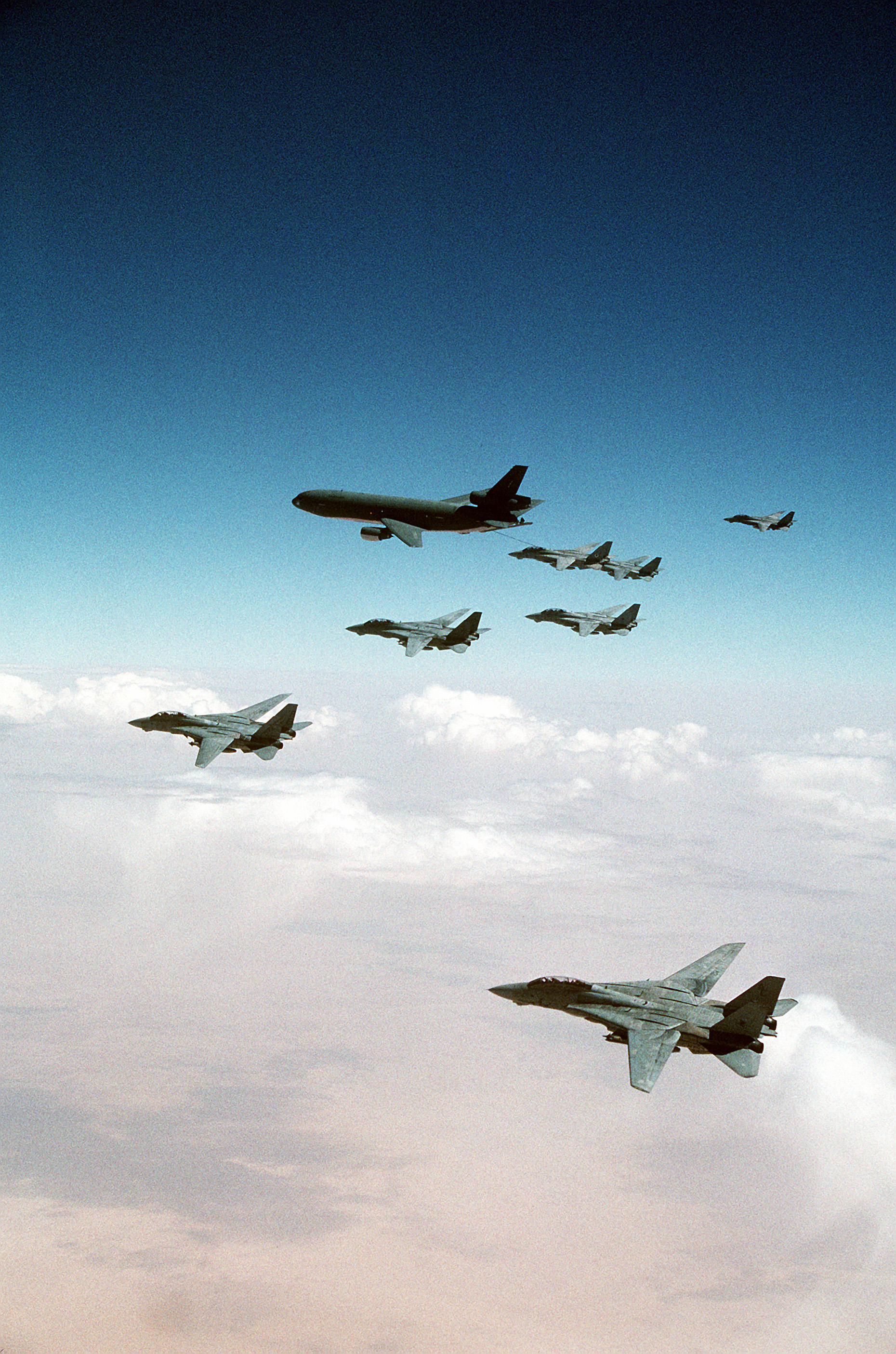 F-14A Tomcat aircraft from Fighter Squadron 14 (VF-14) and Fighter Squadron 33 (VF-33) rendezvous with an Air Force KC-10A Extender aircraft for an in-flight refueling while on patrol in the Persian Gulf region following the cease-fire that ended Operation Desert Storm. VF-14 is based aboard the aircraft carrier USS JOHN F. KENNEDY (CV-67); VF-33 is based aboard the aircraft carrier USS AMERICA (CV-66).